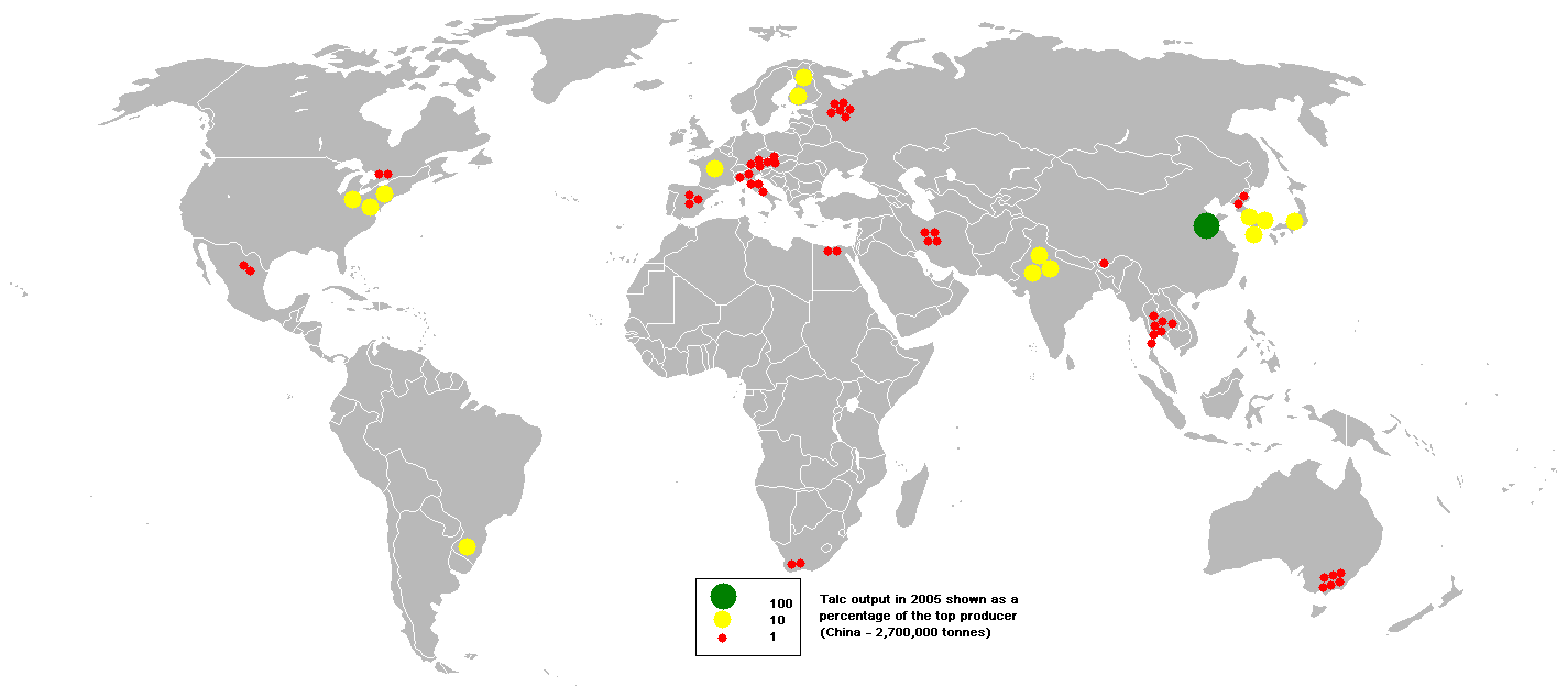 This bubble map shows the global distribution of talc output in 2005 as a percentage of the top producer (China - 2,700,000 tonnes). This map is consistent with incomplete set of data too as long as the top producer is known. It resolves the accessibility issues faced by colour-coded maps that may not be properly rendered in old computer screens. Data was extracted on 16th June 2007. Source - Based on Image:BlankMap-World.png